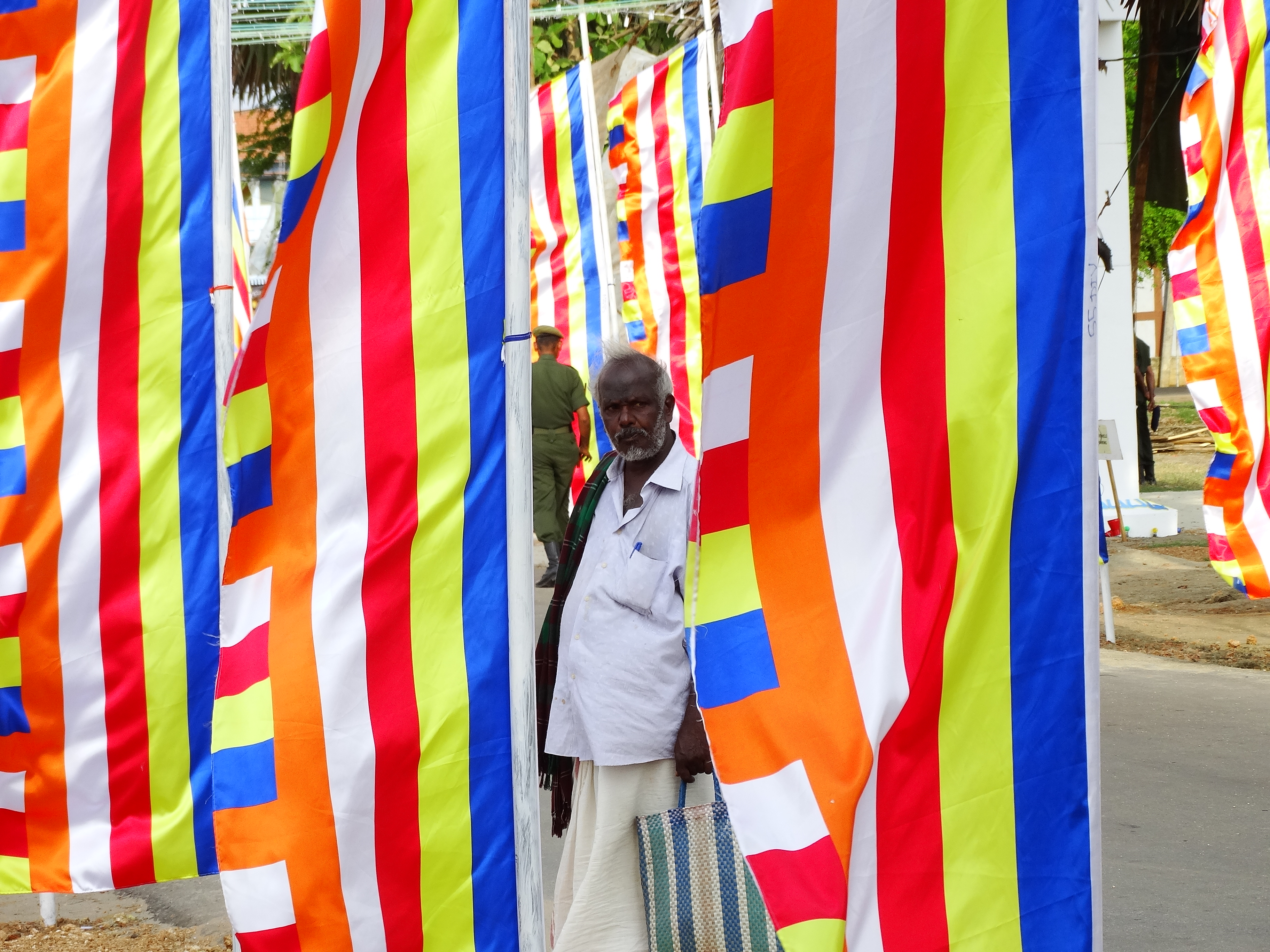 Man with Bunting for Buddha's Birthday - Jaffna - Sri Lanka